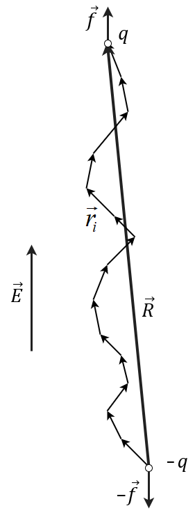 A diagram of N monomers in a chain (a polymer). Ideal chain under the constrain of a force.